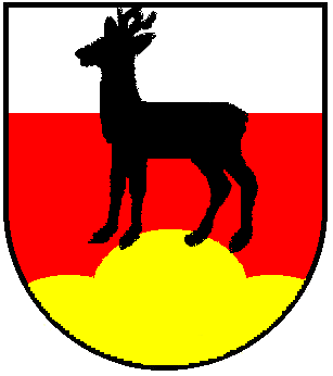 Coat of arms of Gams, Switzerland